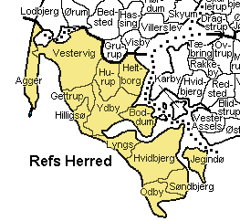 Refs Herred, Thisted Amt Denmark Source: Map by Svend-Erik Christiansen